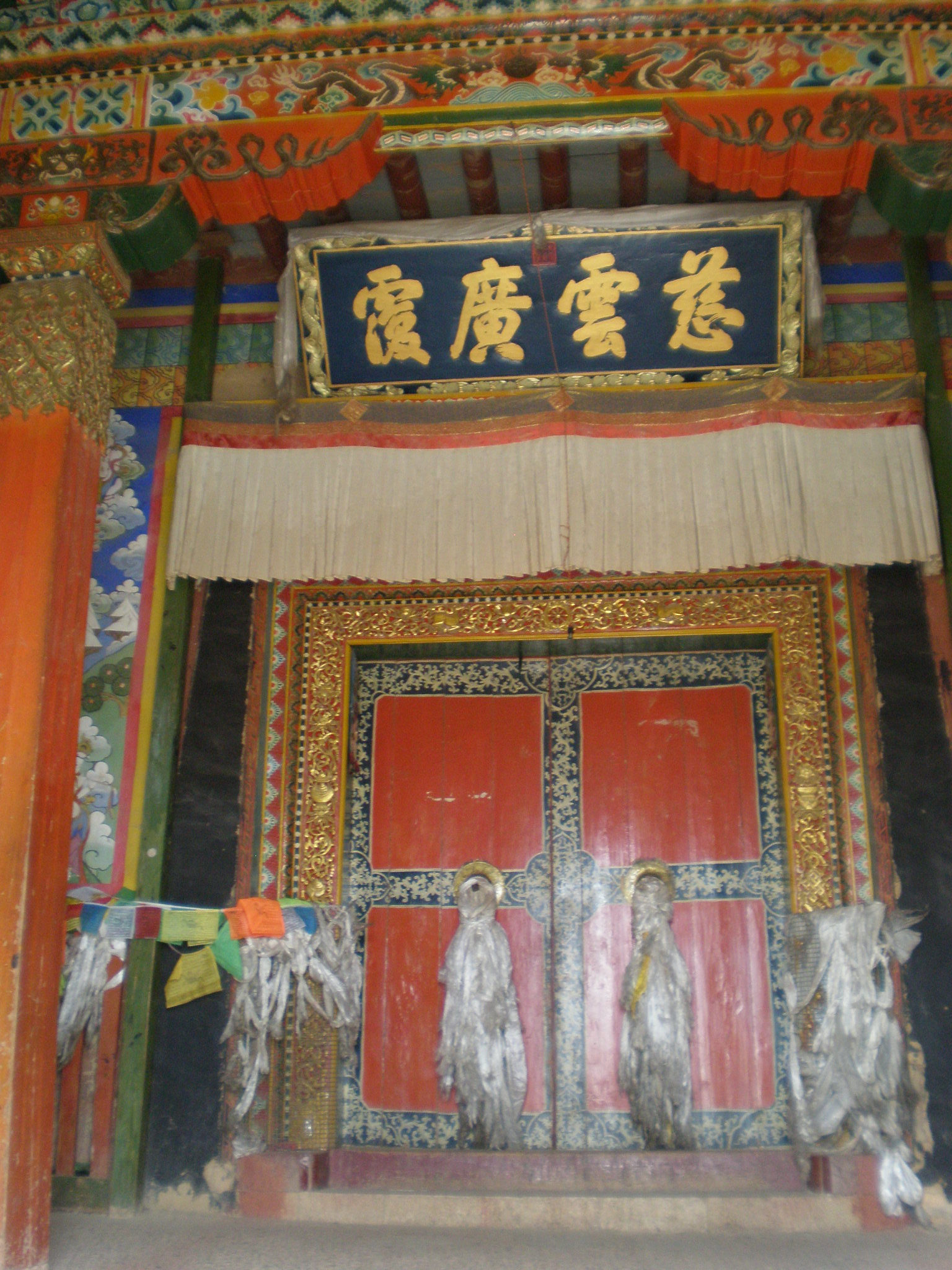 The doors of the main prayer hall of Songzanlin Monastery near Shangri-La, Yunnan, PRC.